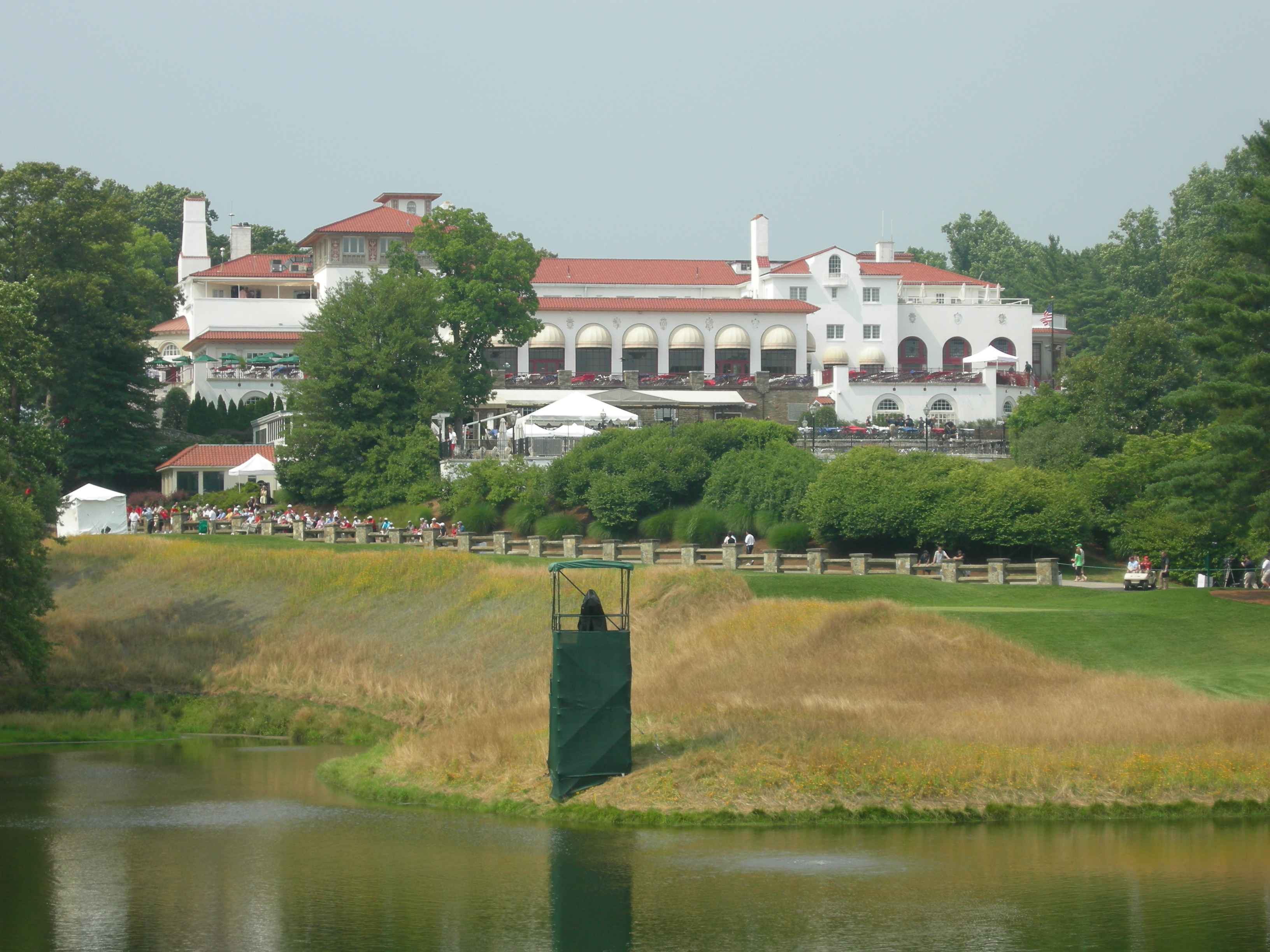 The clubhouse of the Congressional Country Club during the 2007 AT&T National tournament.